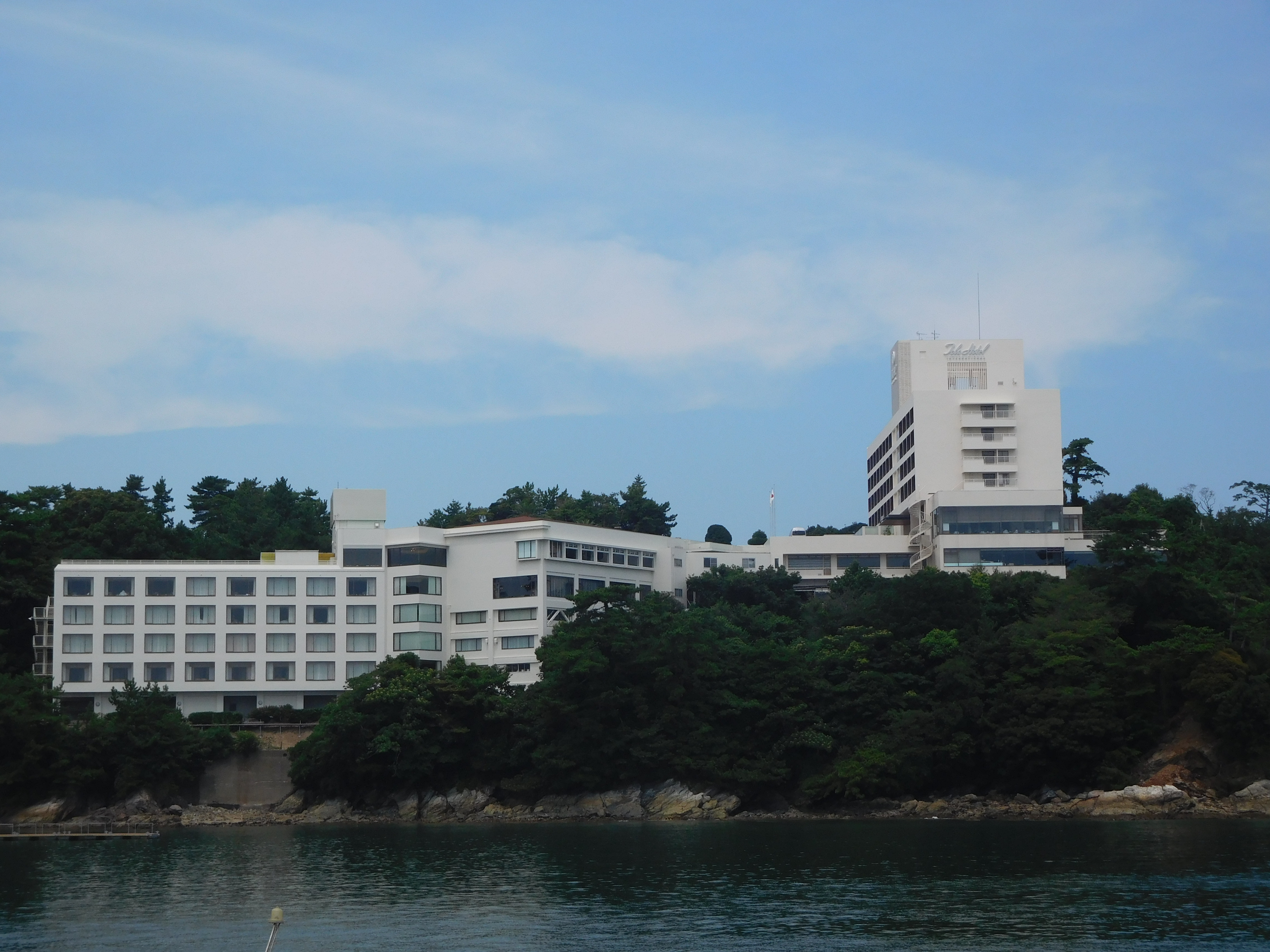 This is the TOBA HOTEL INTERNATIONAL, which is located in Toba, Mie, Japan.